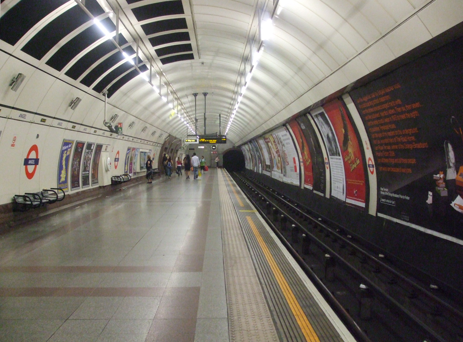 Angel tube station southbound platform looking north. There was originally an island platform here which was converted to this extra wide single platform. The northbound tunnel mouths were filled in and a new platform tunnel constructed.